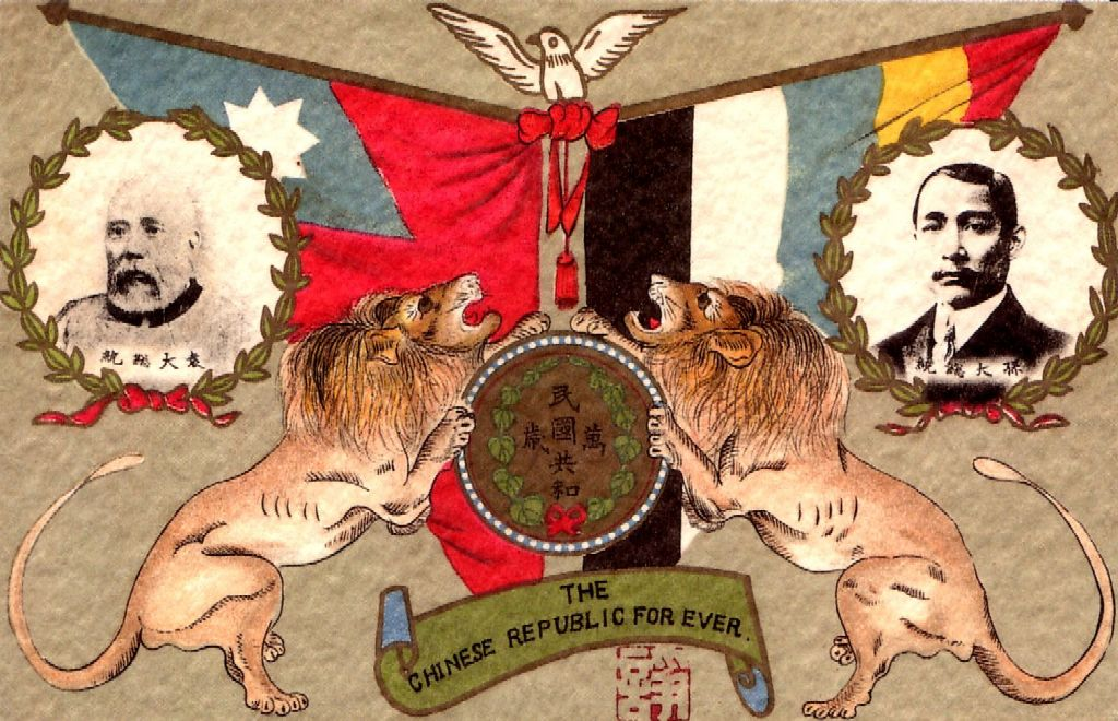 A poster that commemorates the permanent President of the Republic of China Yuan Shikai and the provisional President of the Republic Sun Yat-sen. "Chinese Republic forever" is an unconventional English translation of "Long Live the Republic of China."